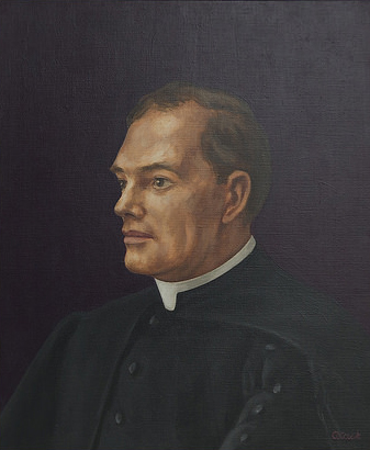 Monsignor Canon Vance